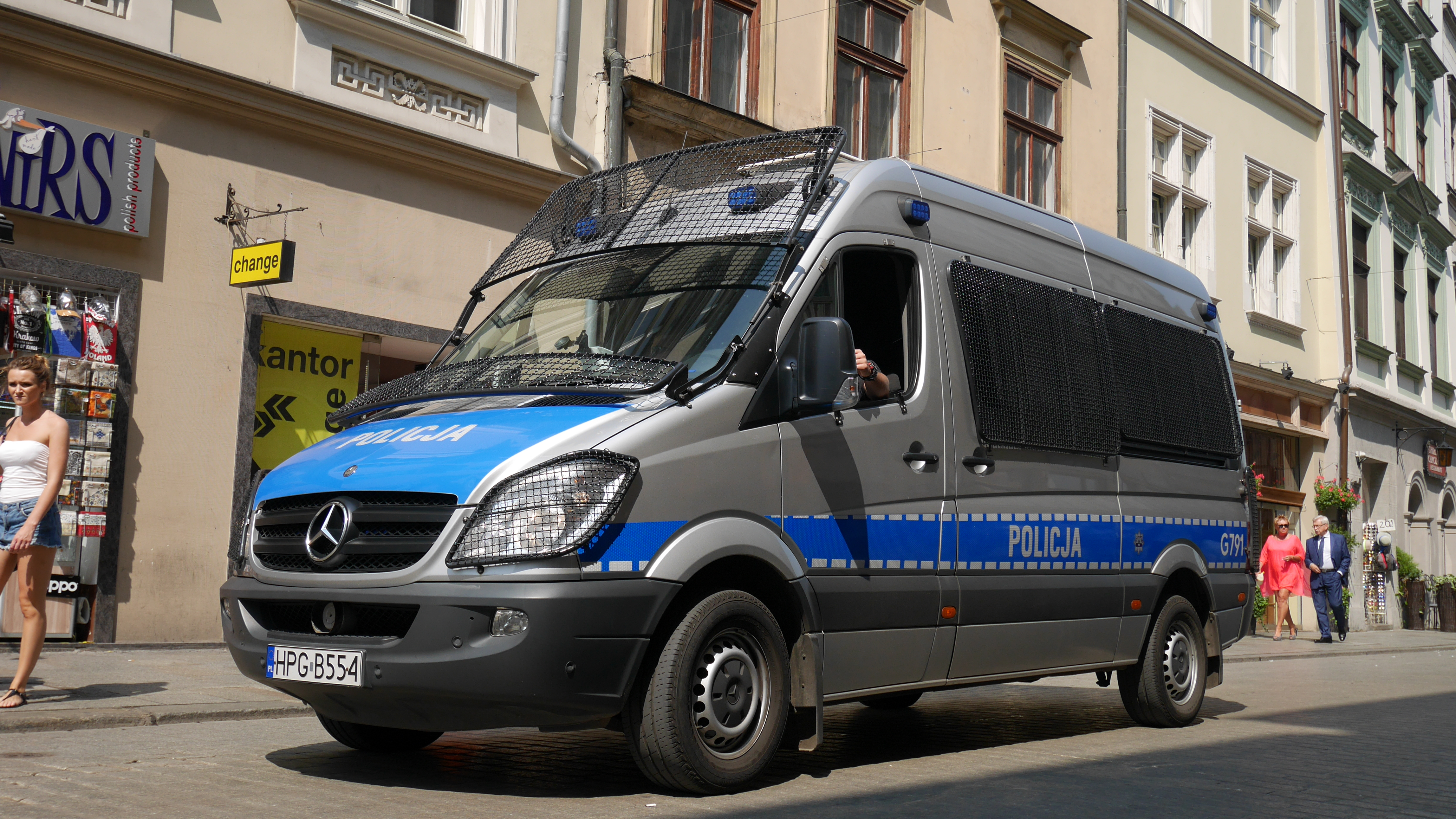 This photo was taken with Panasonic Lumix DMC-GM5 camera, thanks to Panasonic. You can see all photographs in category: Taken with Panasonic Lumix DMC-GM5.